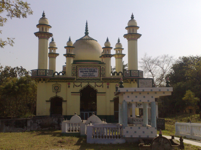 Furfura Sharif, Furfura, Hazrat Abu Bakr's Tomb, Shrine, Hooghly, West Bengal